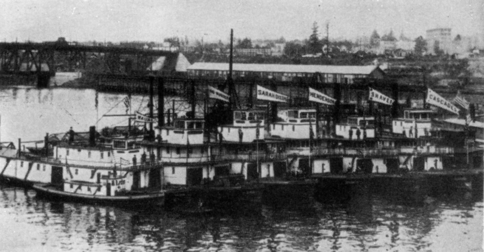 Shaver transportation fleet at Portland, Oregon, including sternwheelers (from left to right) Wauna, No Wonder, Sarah Dixon, Henderson and Cascades. Unidentified small tug is at far left at row.